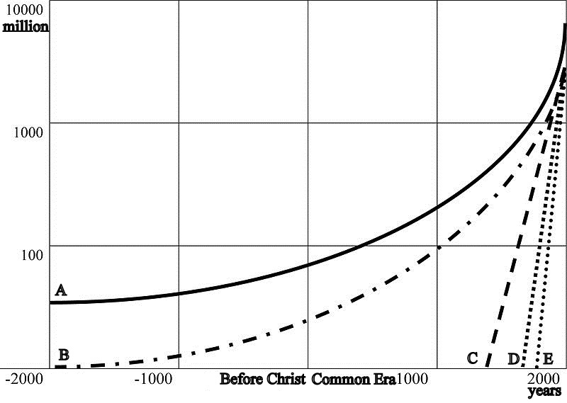 Emergence of info-interaction and evolution of ICT within populations of Humanity A - the population of the Earth → 7 billion; B - number of literate persons; C – number of reading books (with beginning of printing); D - number of receivers (radio, TV); E - number of phones, computers, Internet users